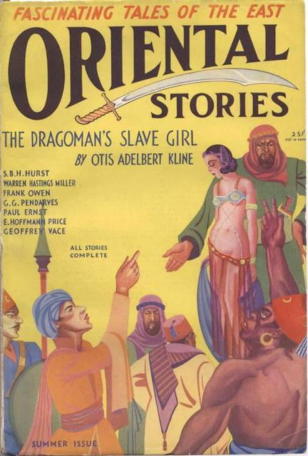 Cover of the pulp magazine Oriental Stories (Summer 1931, vol. 1, no. 5) featuring The Dragoman's Slave Girl by Otis Adelbert Kline.